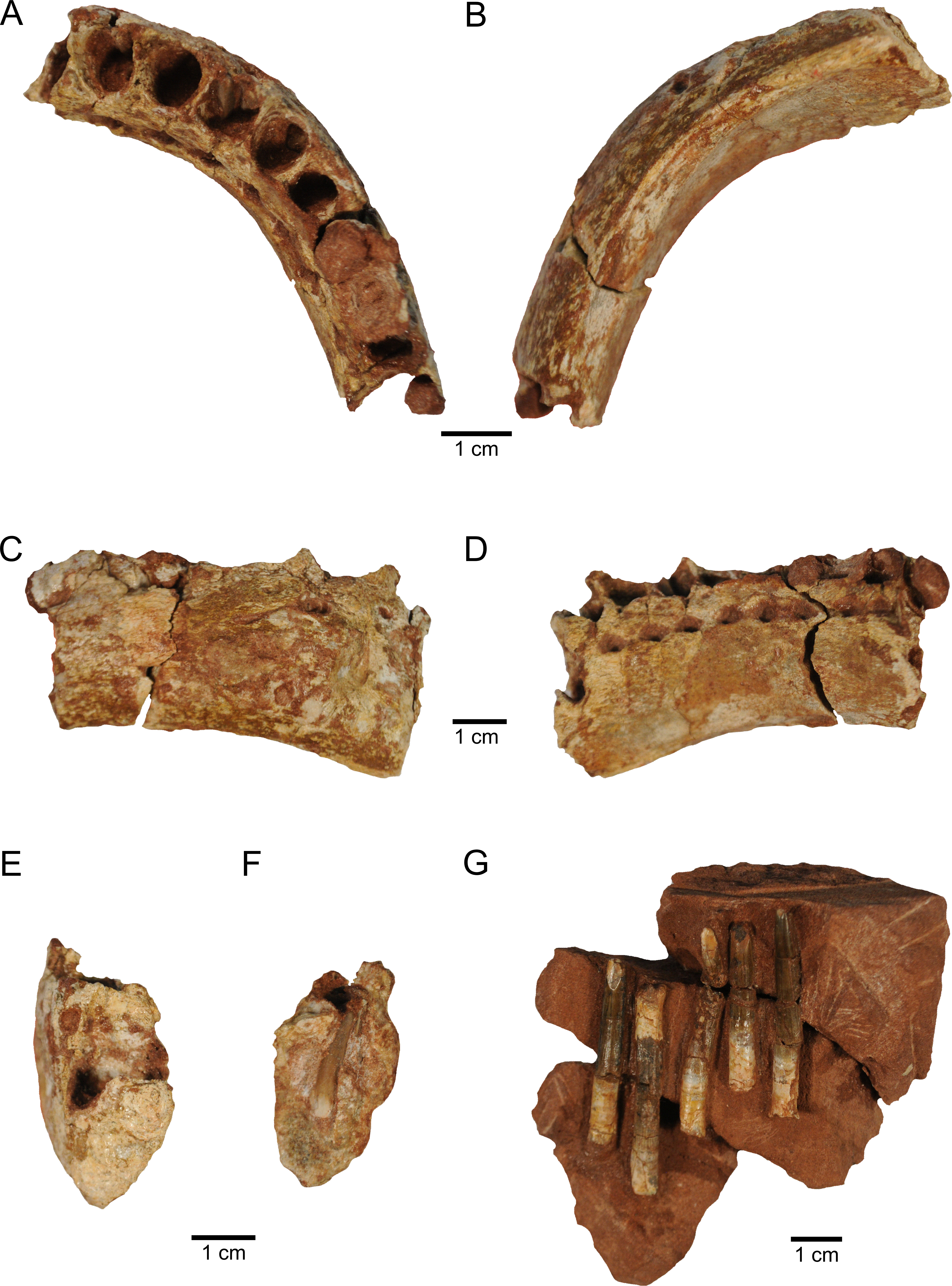 Figure 2: New material of M. topai. (A–F), MBC-42-PV, right dentary in dorsal (A), ventral (B), lingual (C), labial (D), and symphyseal (E) views; (F), cross section at the level of the seventh alveolus, showing one replacement tooth. (G), MBC-38-PV, functional teeth as found in the bearing rock.